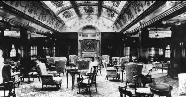 View of the First Class Drawing Room of the RMS Lusitania